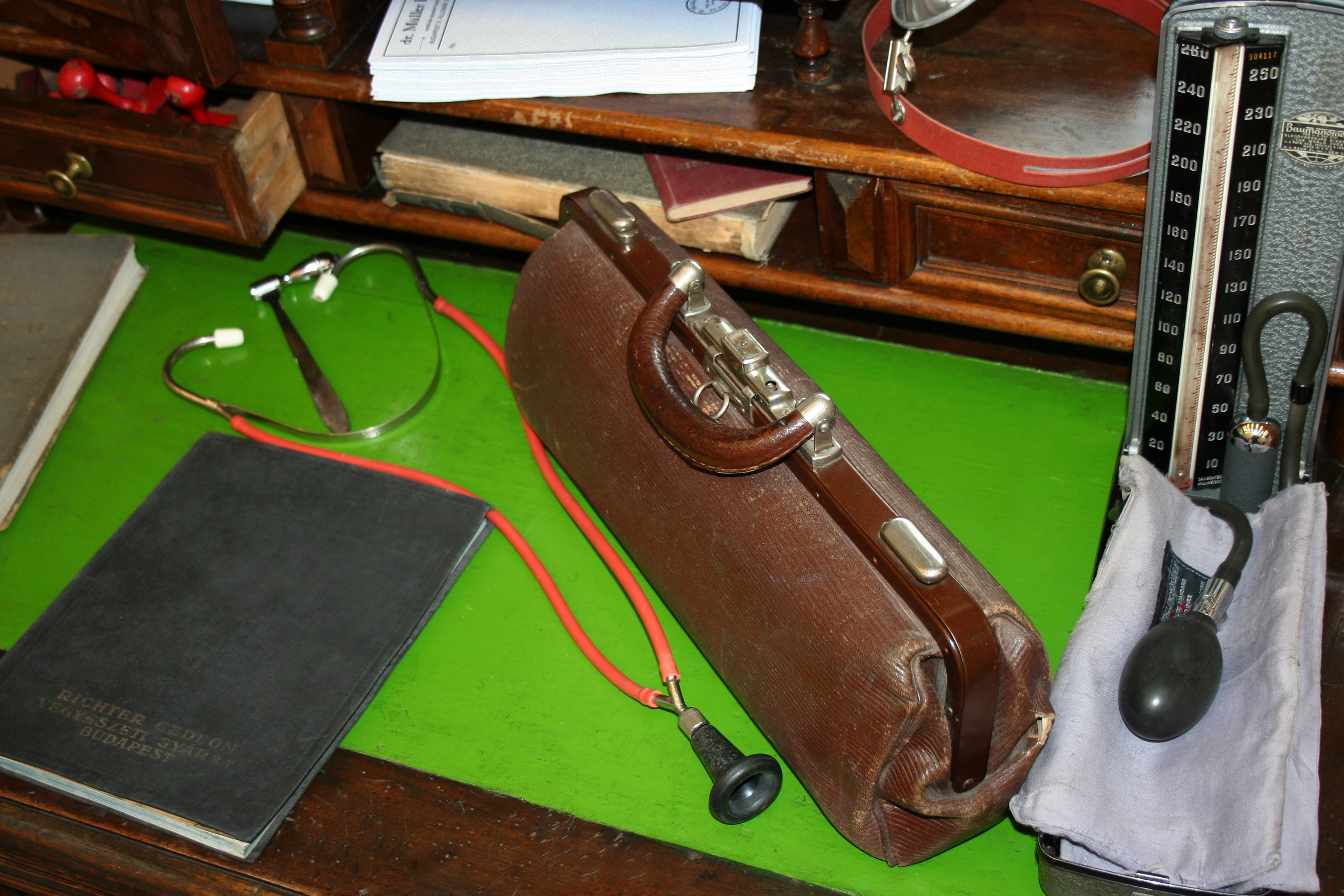 Medical history - district-doctor table cca 1925. - Hungary, Budapest